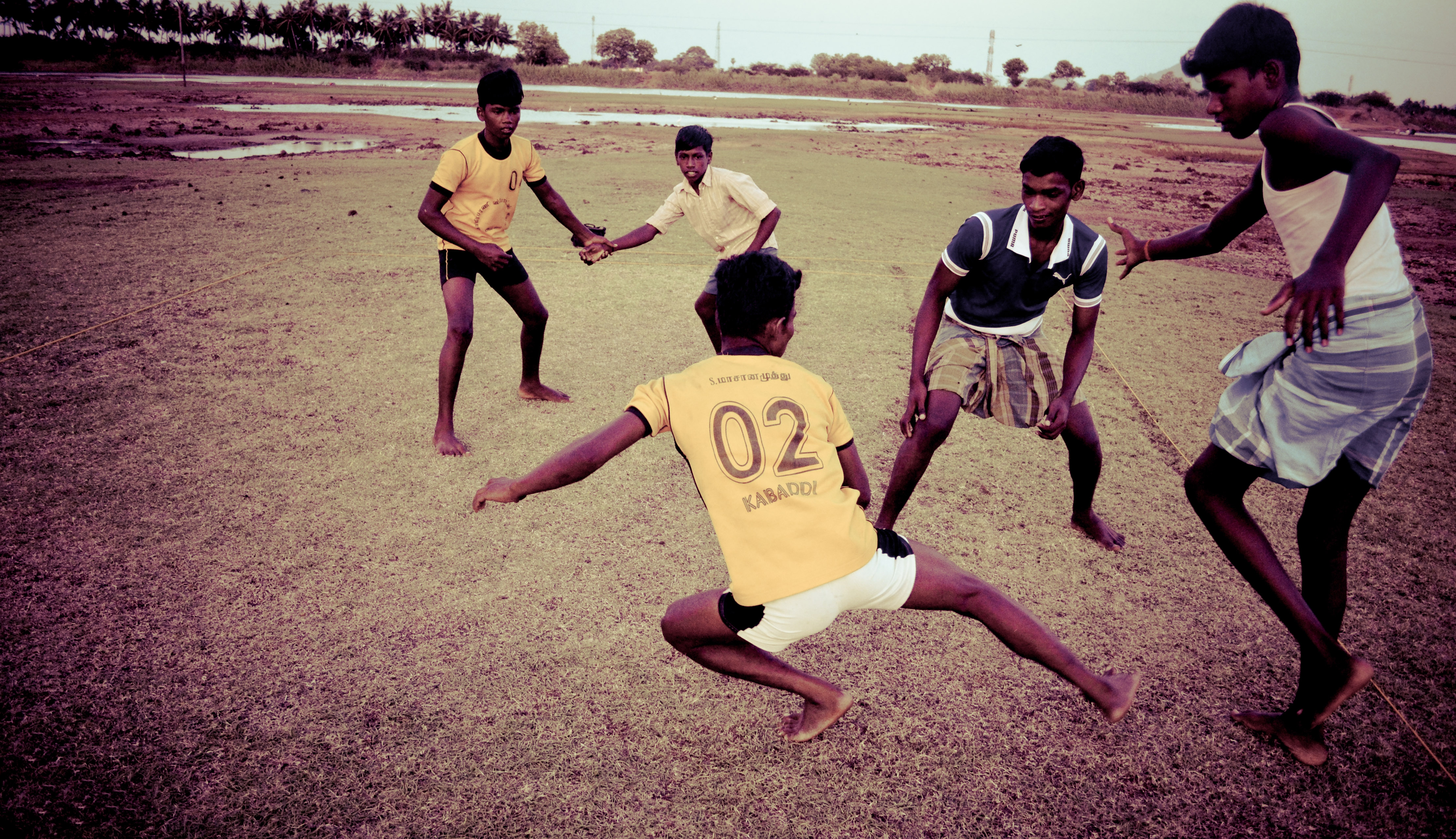 Kabaddi is the most famous game in Ambasamudram village areas.